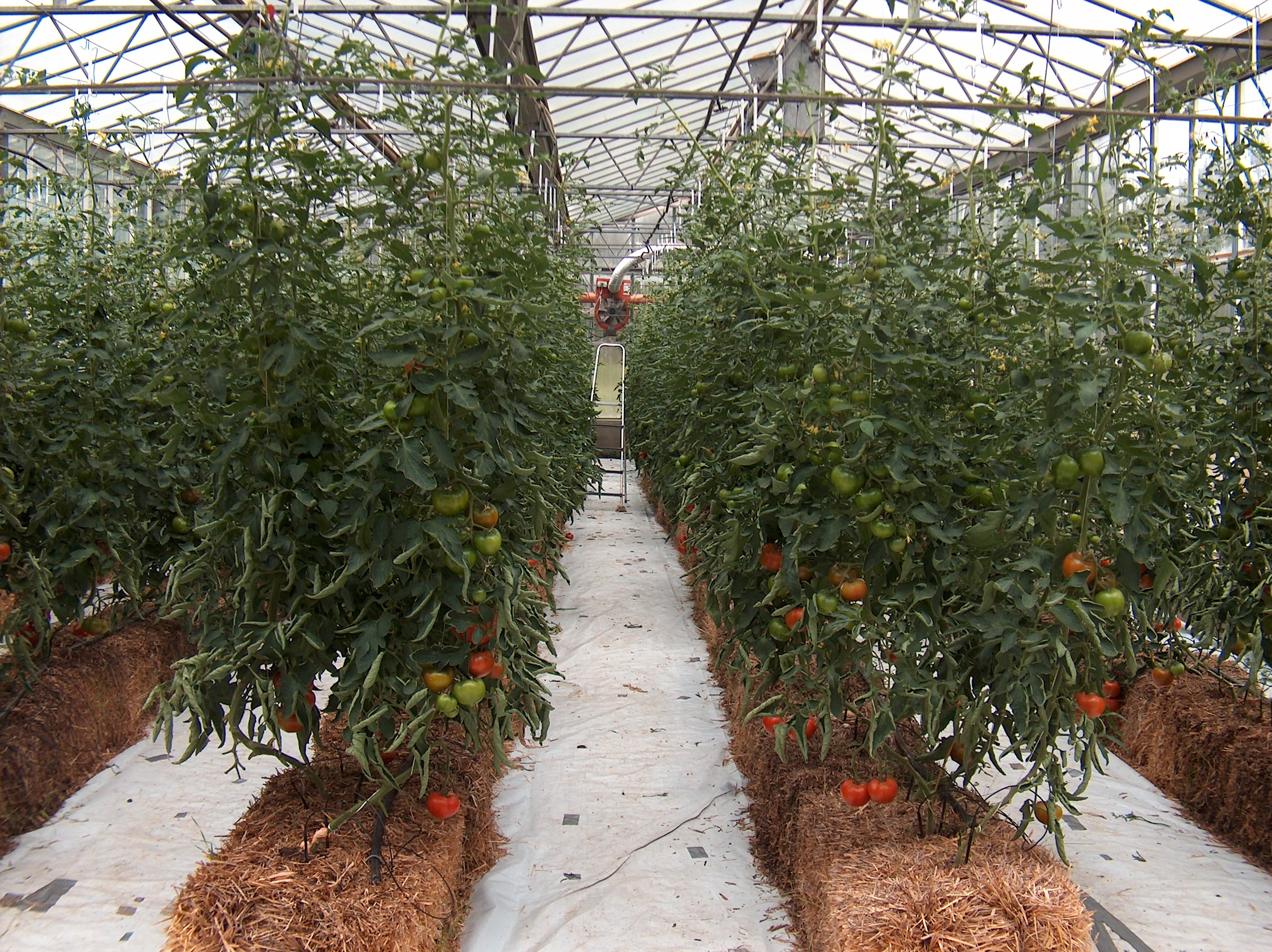 Tomatoes Black magigno hybrid growth by hydroponic on straw bales (from Professional Institute of Agriculture and Environment "Cettolini" Villacidro, Italy)